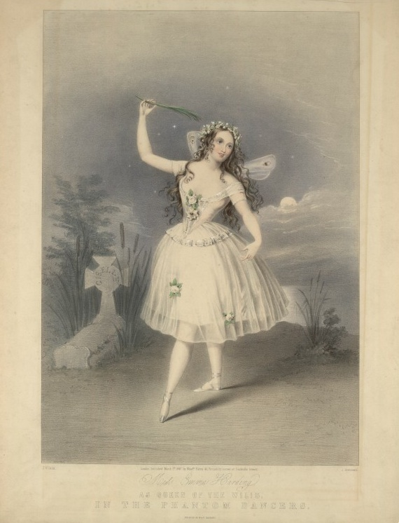 Drawing of Emma Hardinge Britten, actress in The Phantom Dancers. It was performed at the Adelphi in the 1846-47 season, with 102 performances, and was considered a "great success".